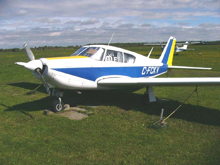 Photo taken by Adam Hunt 2004 - released to public domain